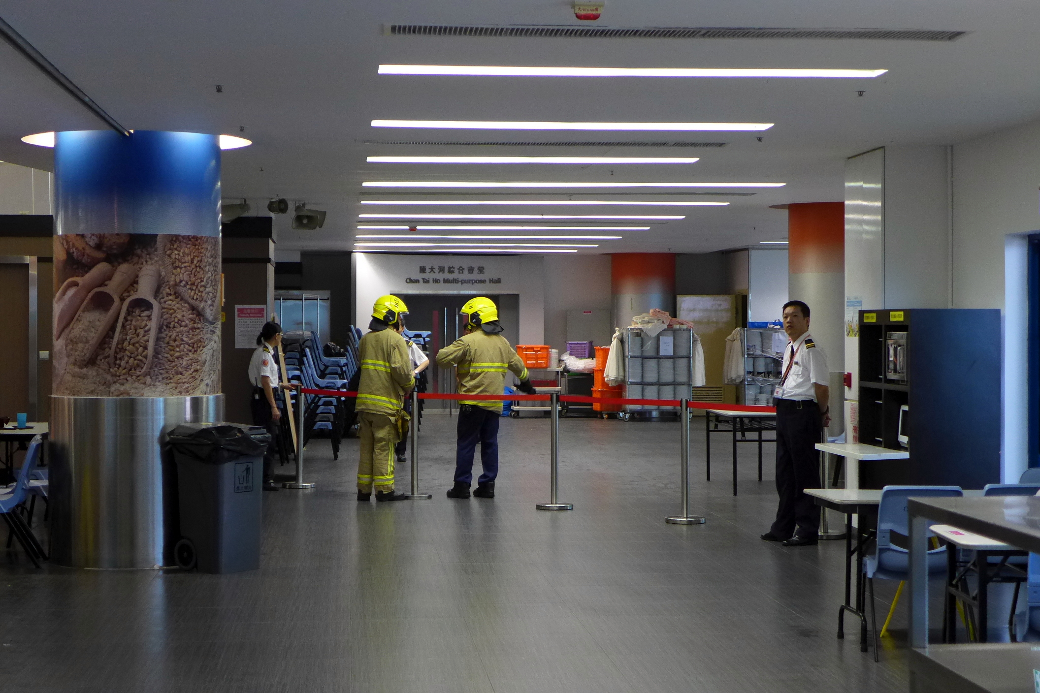 Chan Tai Ho Multi-purpose Hall Canteen Entrance